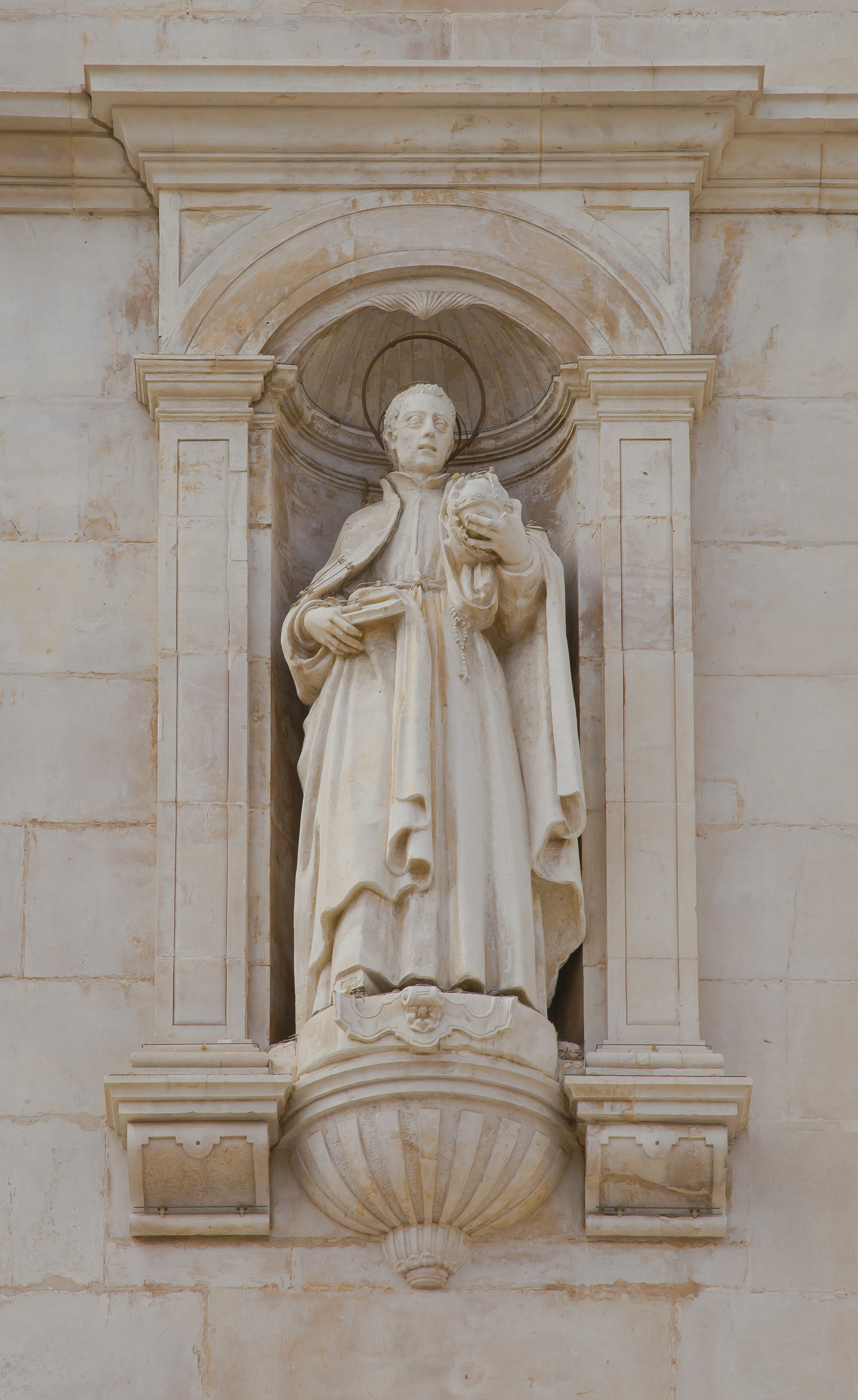 Statue at the New Cathedral, Coimbra, Portugal